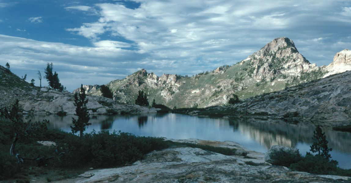 Lower Cold Lake, Nevada, looking north across Cold Creek Canyon.